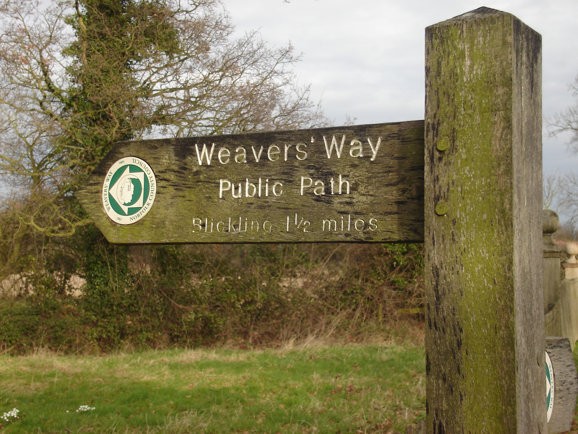 Weavers' Way way sign close to the village of Blickling, Norfolk